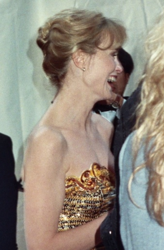 Jessica Lange on the red carpet at the 62nd Annual Academy Awards, 3/26/90